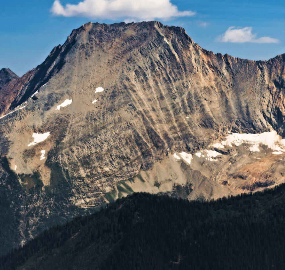 clear weather in the Purcells